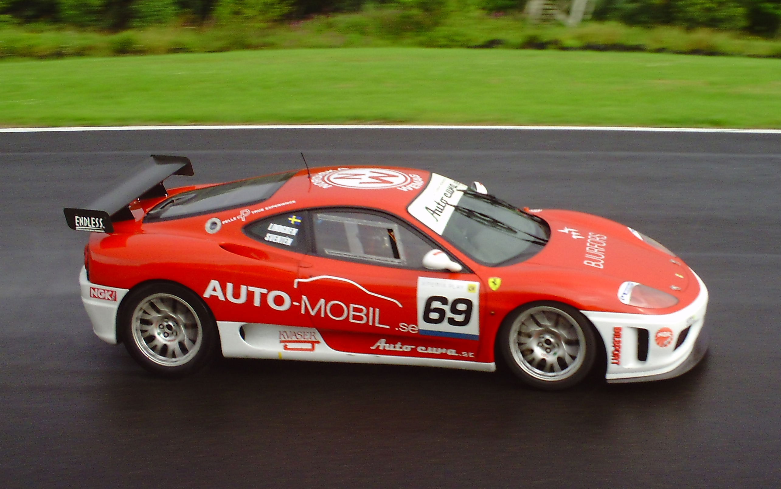 A Ferrari 360 Challenge driven by Jan-Eric Lindgren and Martin Sventén for auto-mobil.se in Swedish GT Series at Falkenbergs Motorbana, 2011